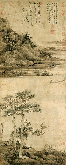 Hermit Fisherman on Lake Dongting, by Chinese artist Wu Zhen, Yuan Dynasty period, ink on paper.